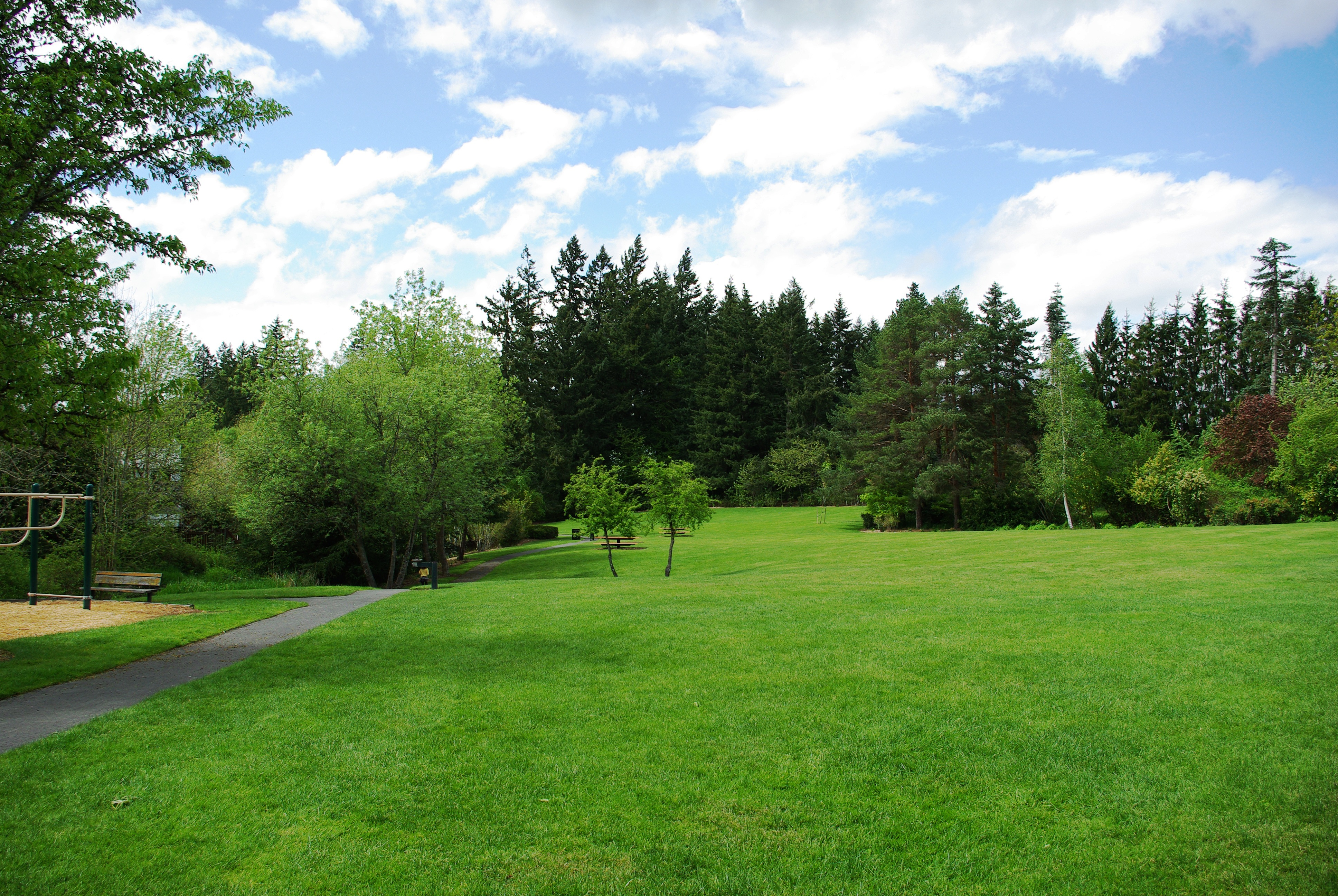 Hamby Park in Hillsboro, Oregon, USA.